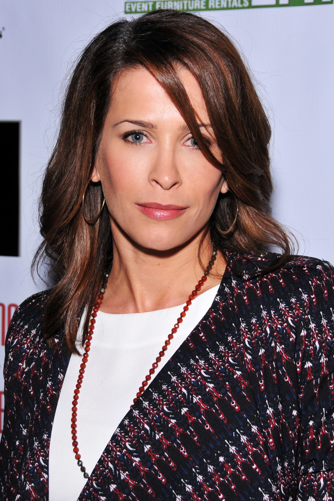 Christina Cox, West Hollywood, California on April 2, 2013 - Photo by Glenn Francis of